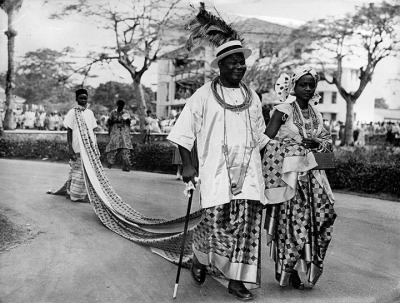 Festus Okotie-Eboh (1919-1966) was a Nigerian politician and former Minister of Finance during the administration of Abubakar Tafawa Balewa.